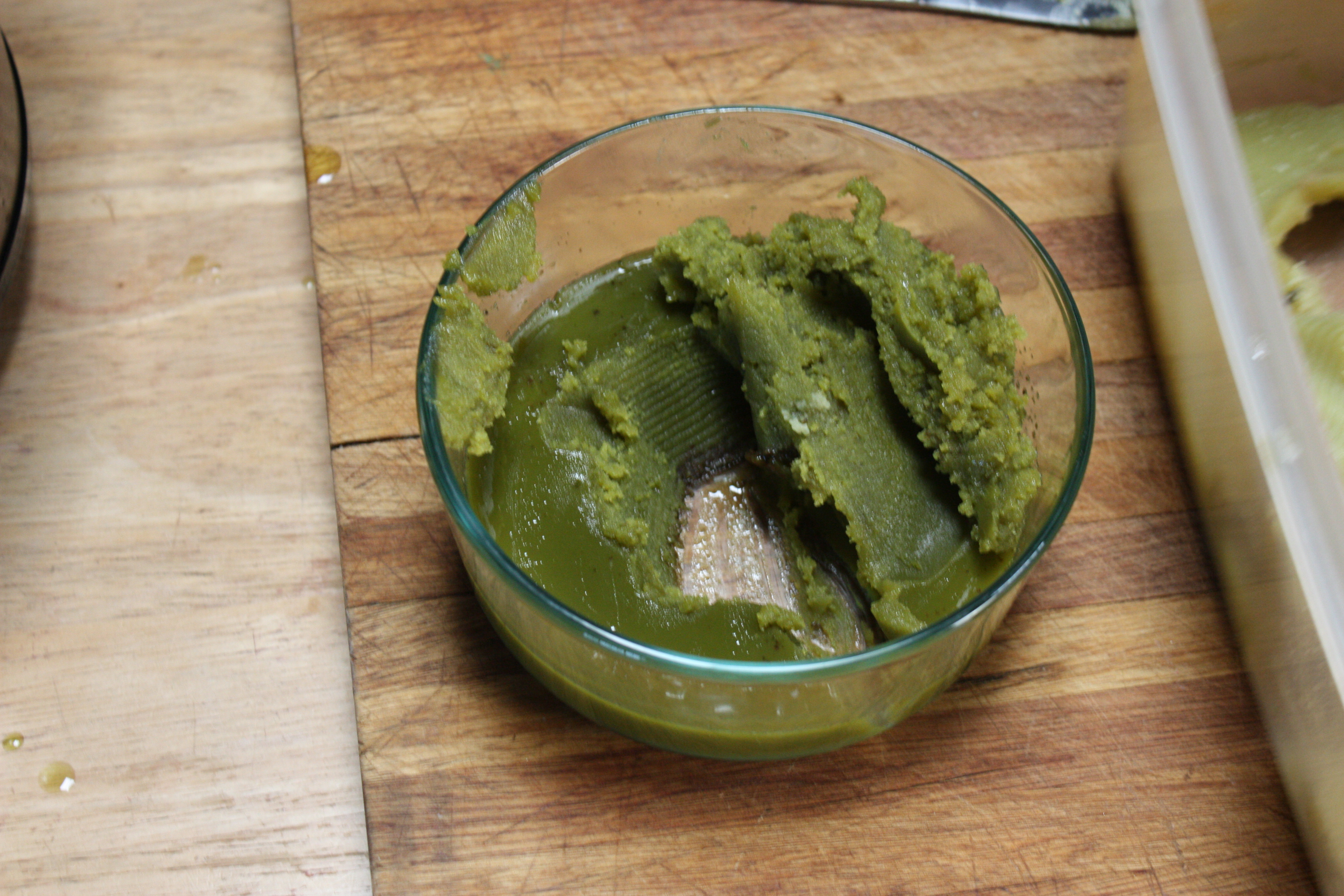 Low fat Cannabis Butter, or Canna Butter